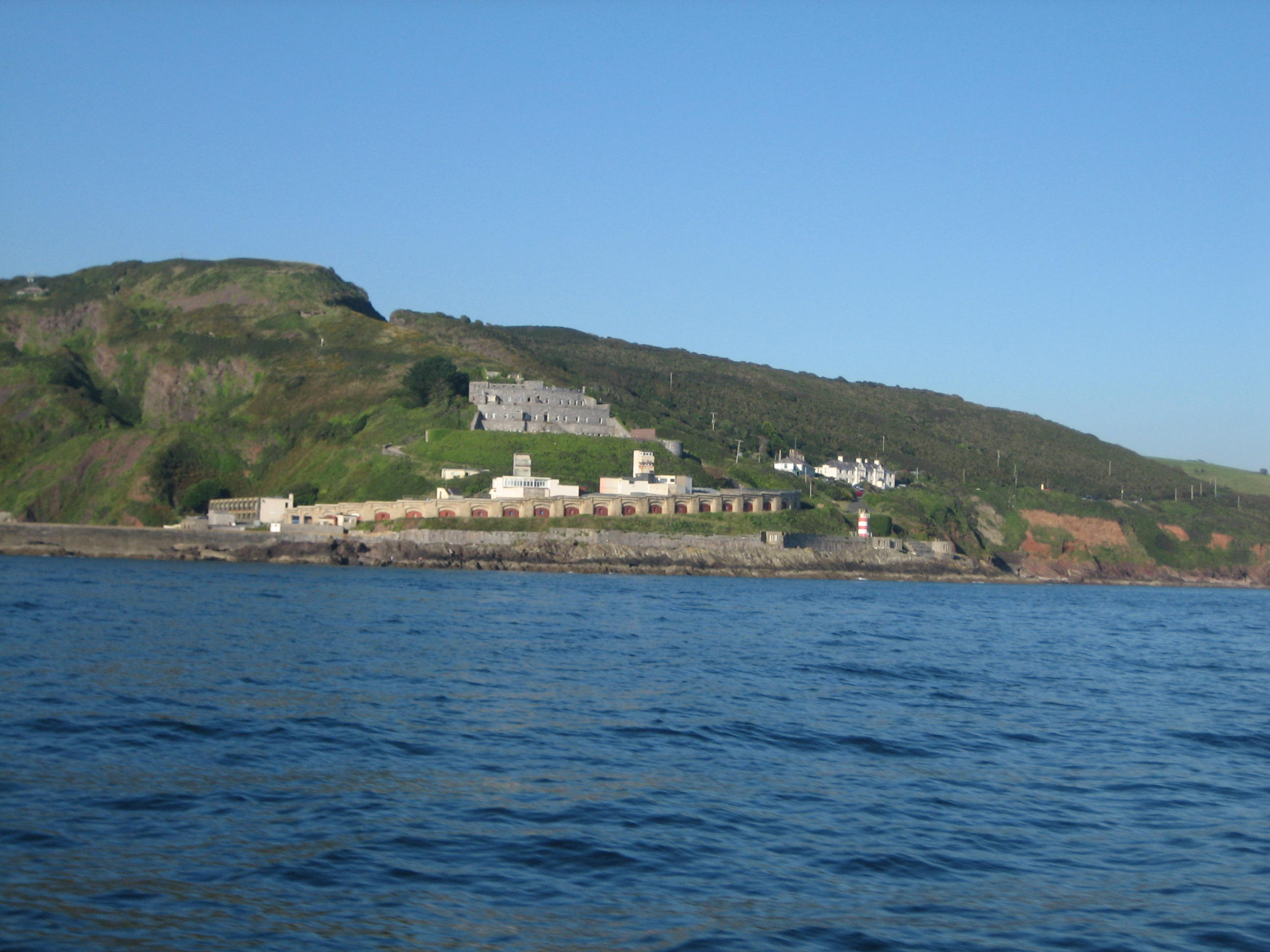 Fort Bovisand from the south